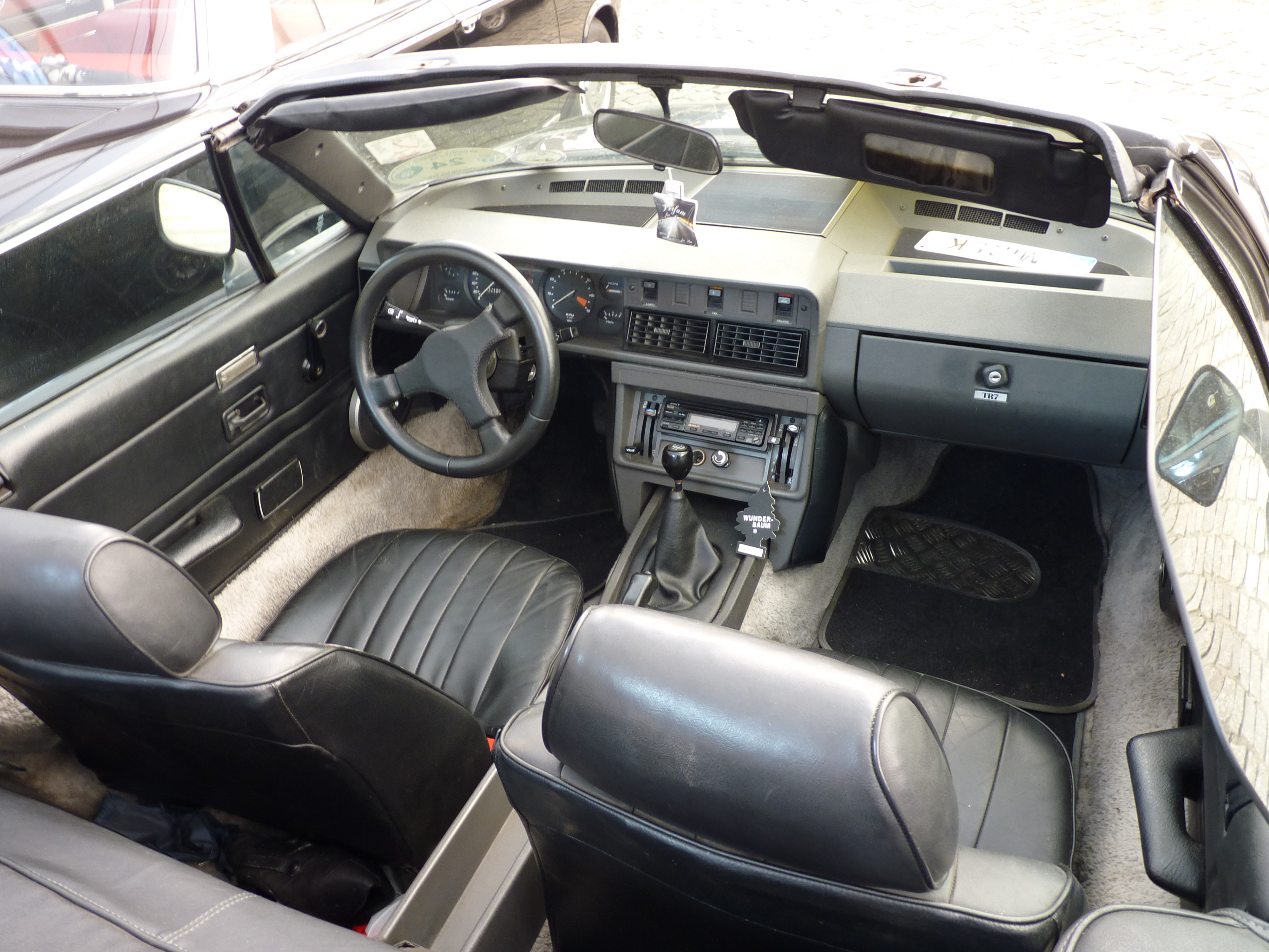 Classic Moto Show 2014 in Kraków. The categories of this image should be checked. Check them now! Remove redundant categories and try to put this image in the most specific category/categories Remove this template by clicking here (or on the first line)